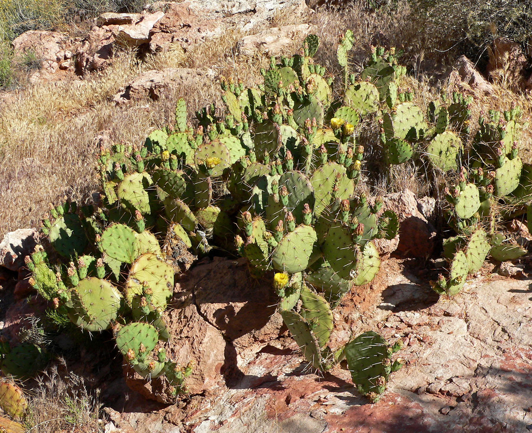 Opuntia phaeacantha in Calico Basin, west of Las Vegas, Nevada